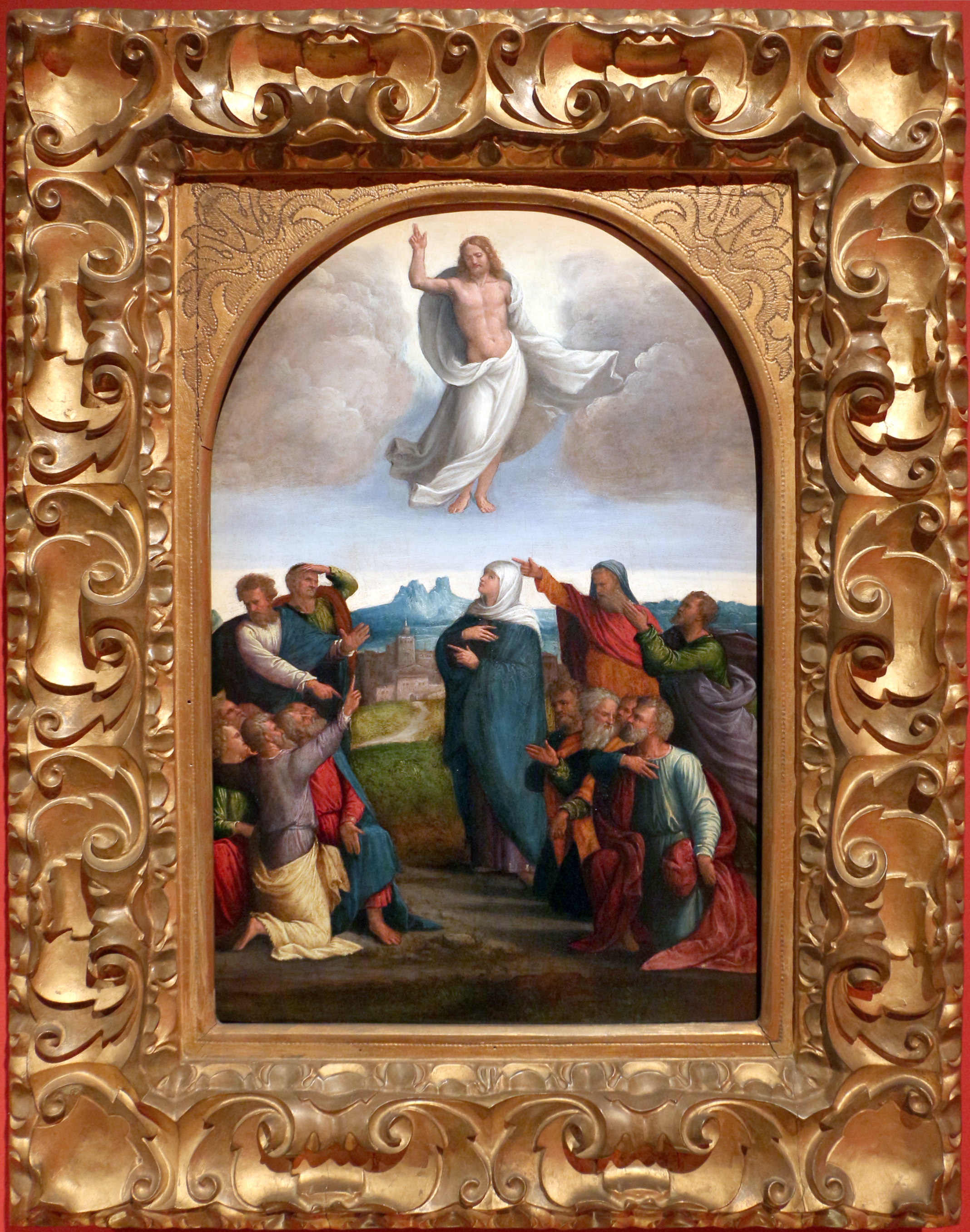 Fondazione Cavallini Sgarbi, on exhibition in Osimo (2016)